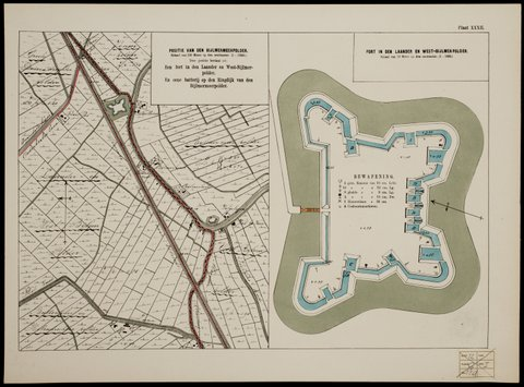 Designmap by J. Kromhout, officer with the Dutch army, from a series of 38 maps of fortresses of the Stelling van Amsterdam